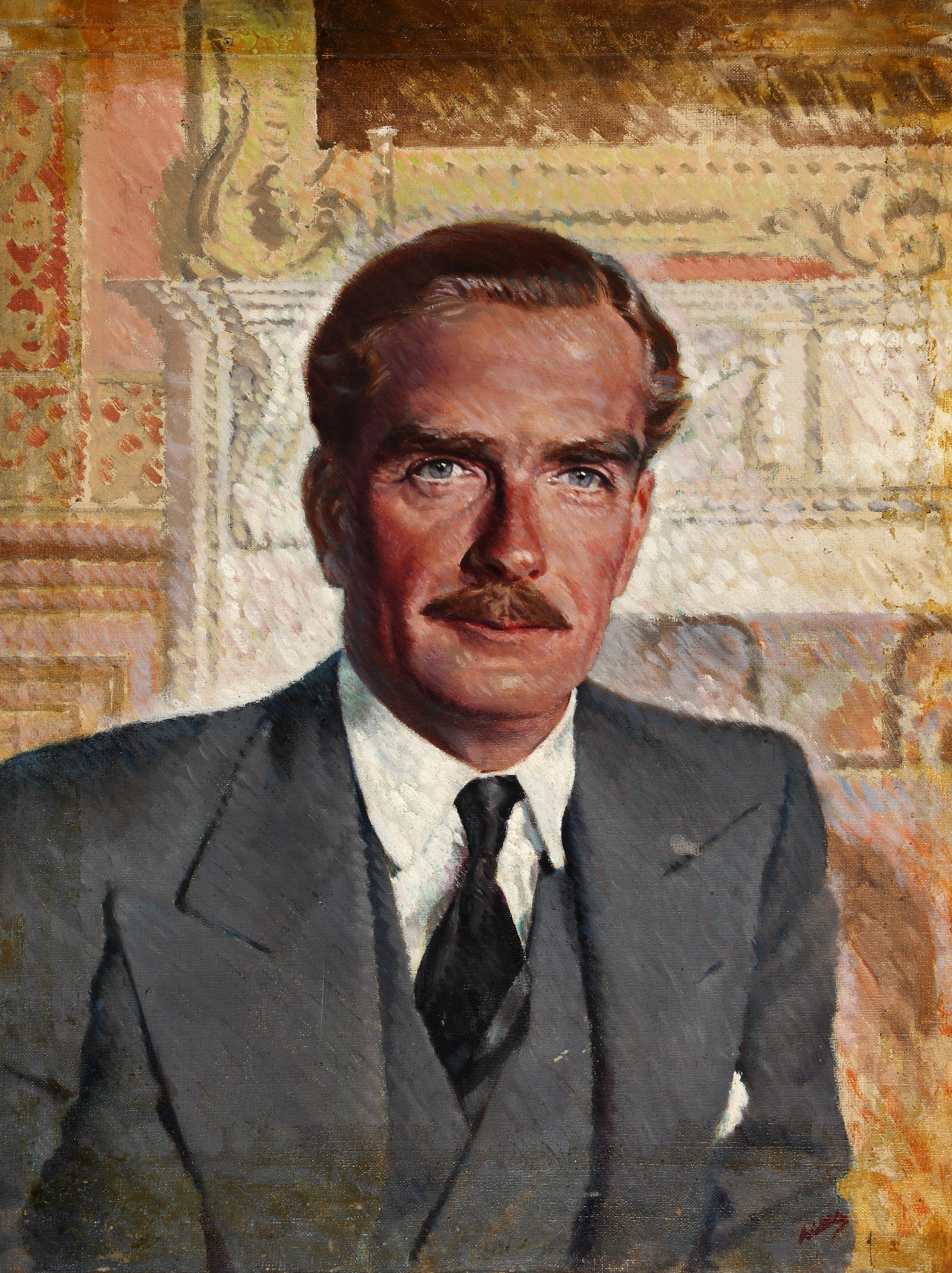 Rt Hon Anthony Eden Depicted person: Anthony Eden, 1st Earl of Avon